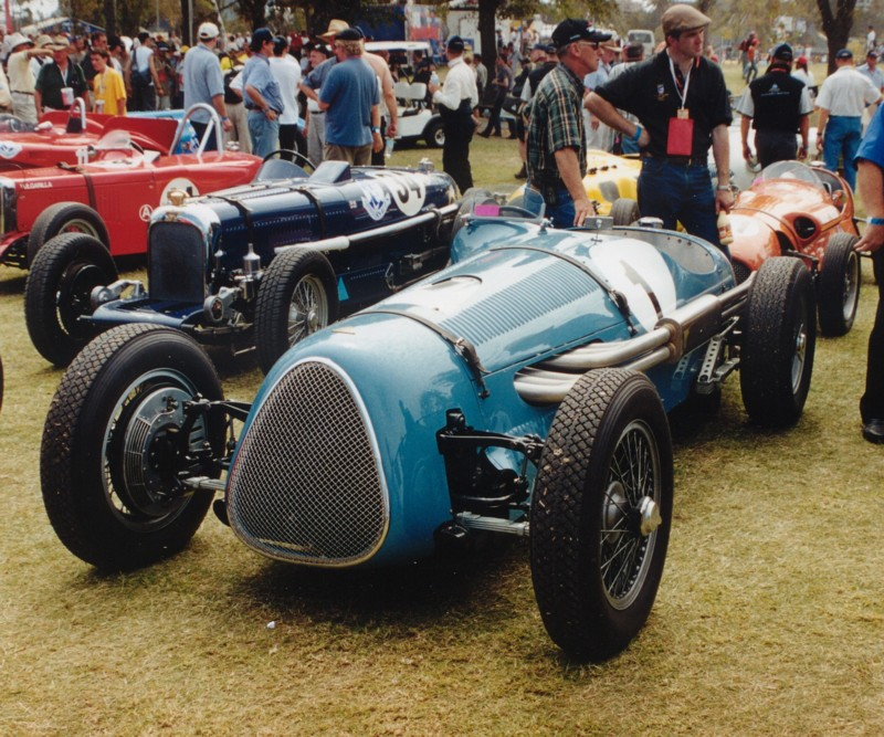 1946 Maybach Special Mk 1 at the 2000 Australian Grand Prix